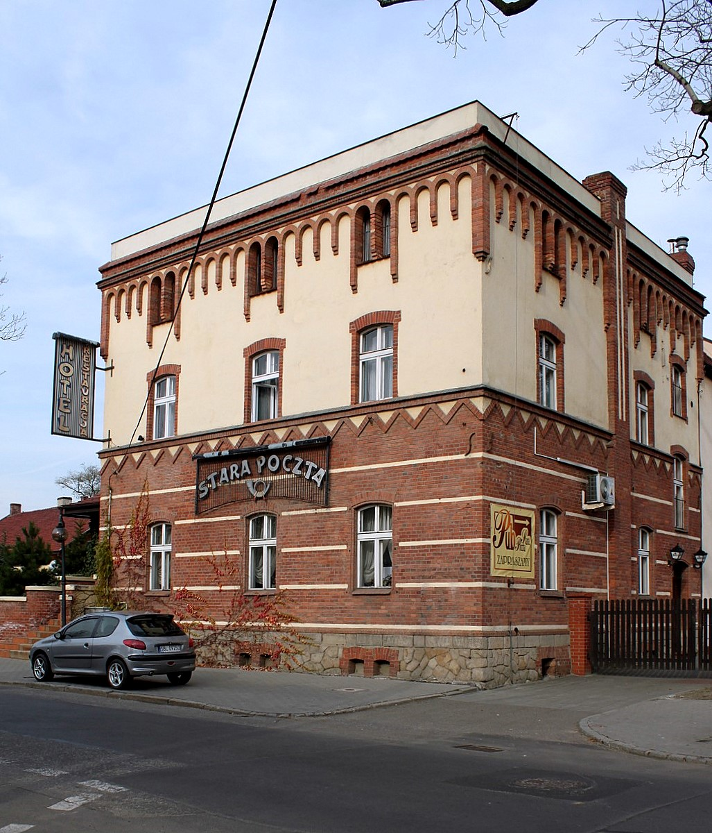 Old Tychy - Post Office